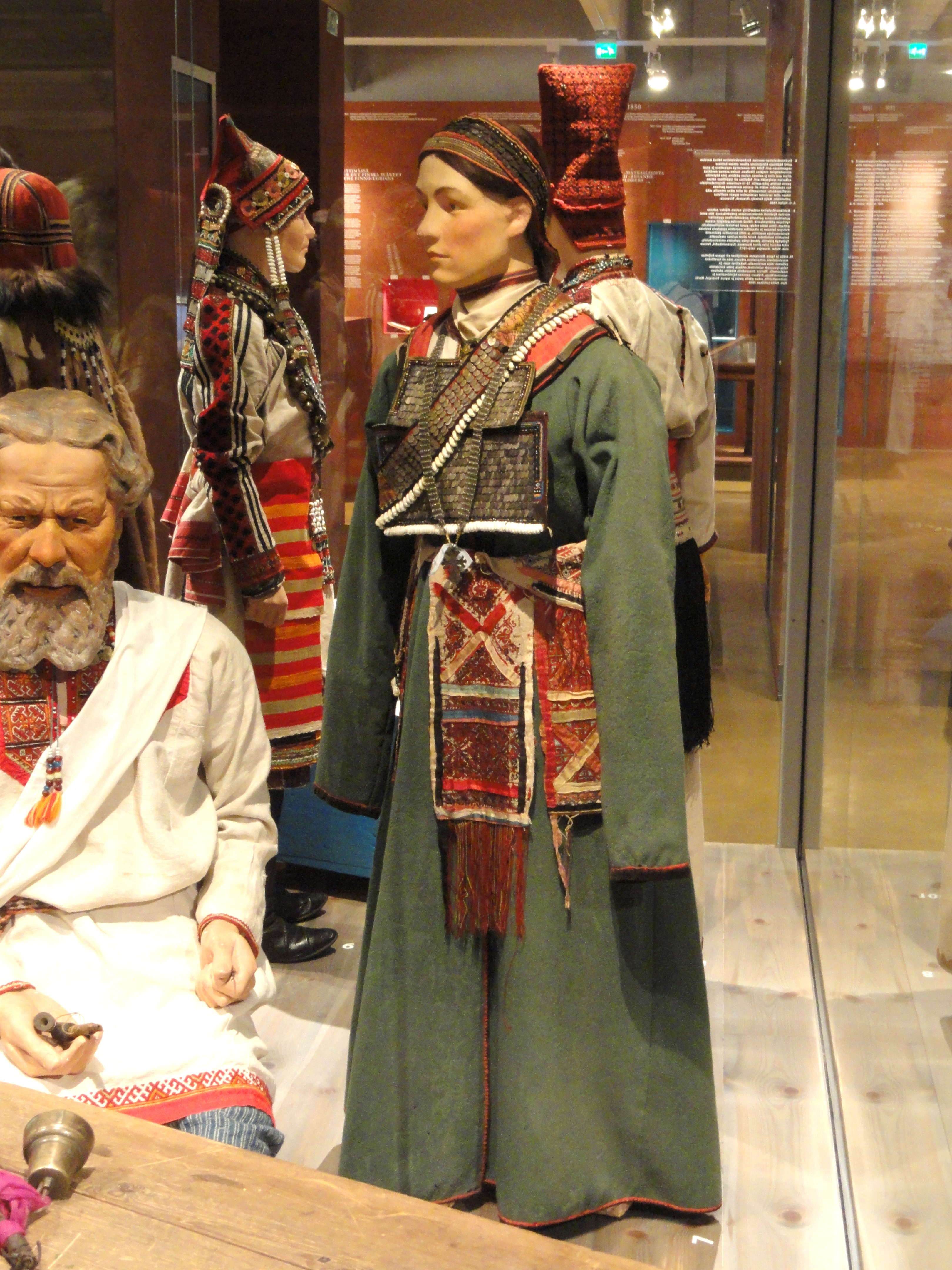 Clothing exhibit in the Museum of Cultures, Helsinki, Finland.